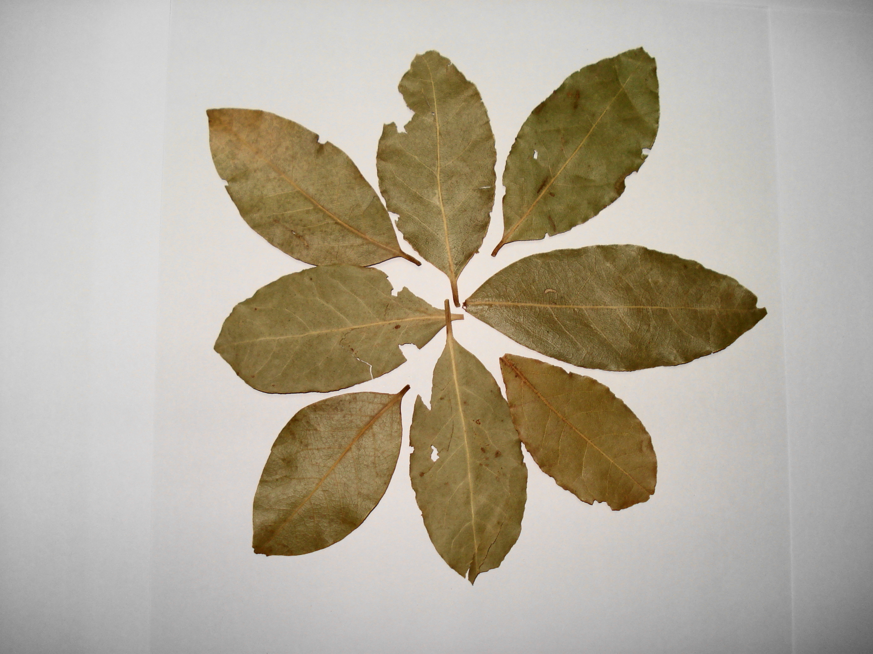 Bay leaves, in urdu tez patta, french fuelles de laurer. It is the beauty of Bombay Biryani